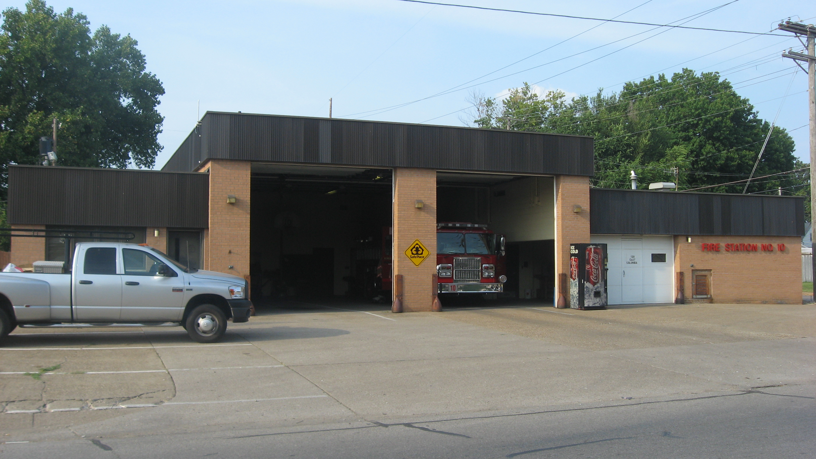 Front and western side of Fire Station No. 10, located at 119 E. Columbia Street in Evansville, Indiana, United States. Built in 1977, it sits across the street from the old Hose House No. 10, which was built in 1888 and is listed on the National Register of Historic Places.